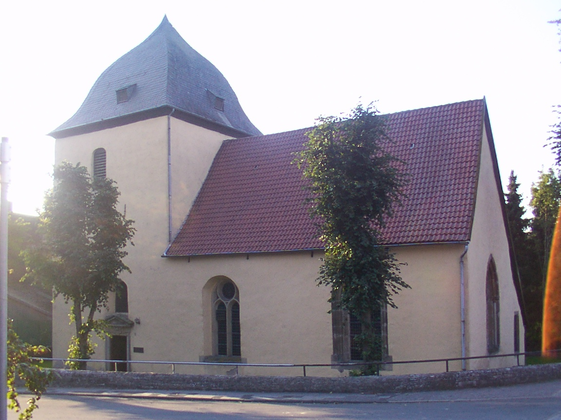 Borchen: Old parish church Saint Meinolf in Dörenhagen